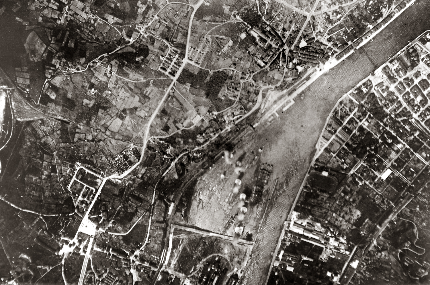 Bombing of Bilbao port during Spanish Civil War by italian planes.